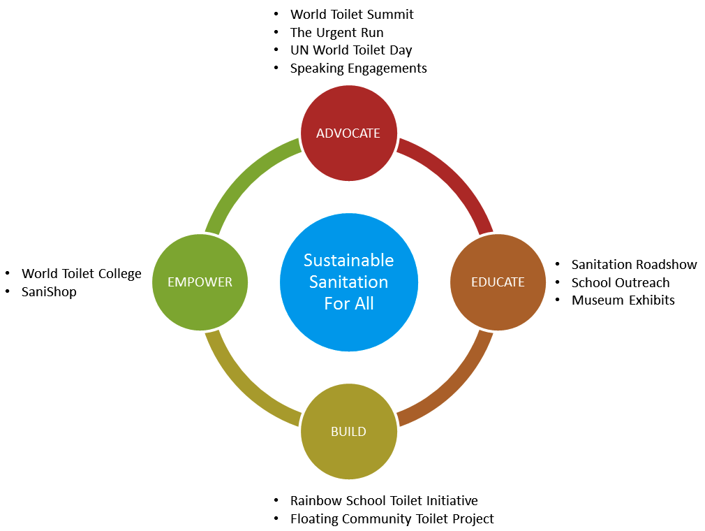 WTO Mission Diagram